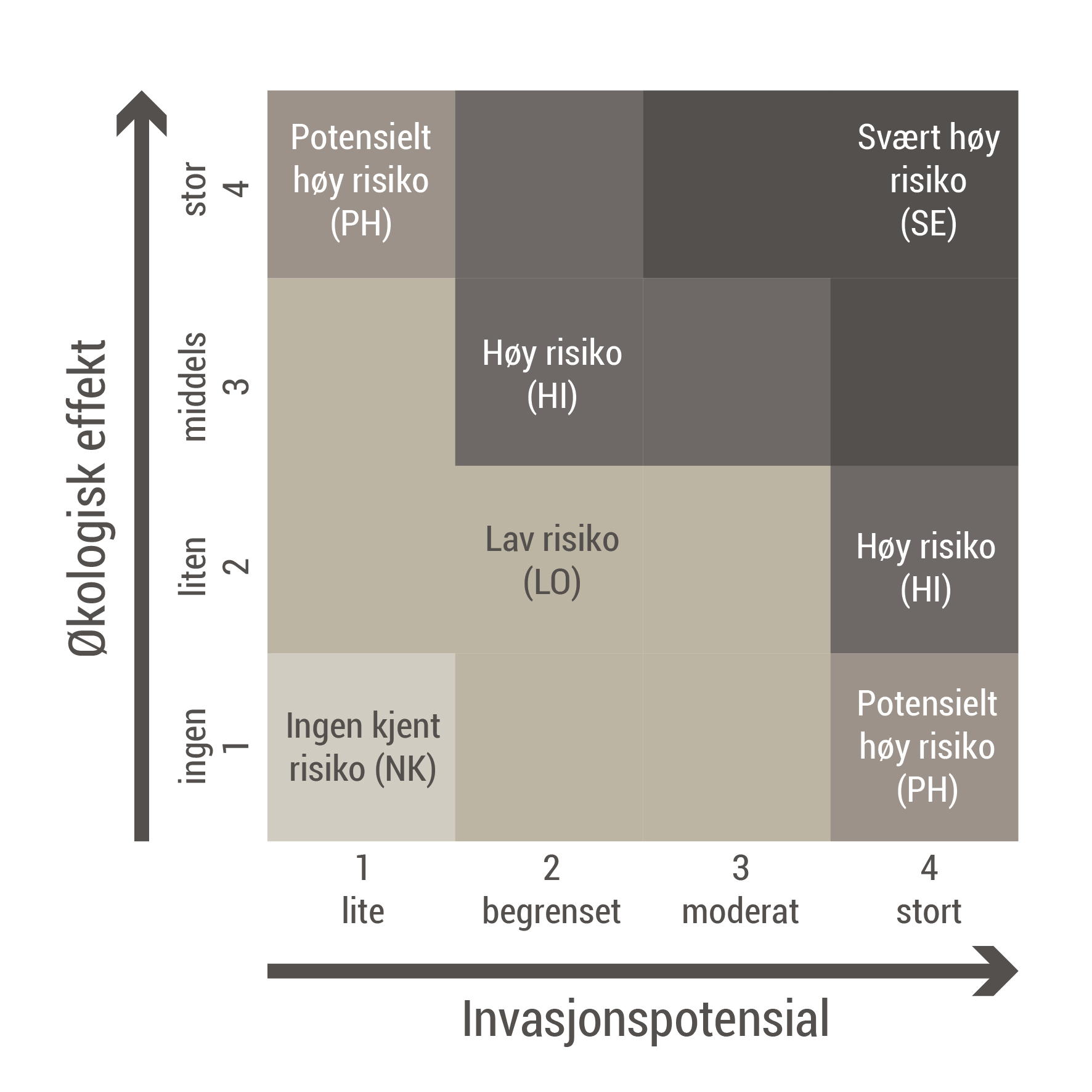 Matrix of groups of alien species and their risks in Norway.